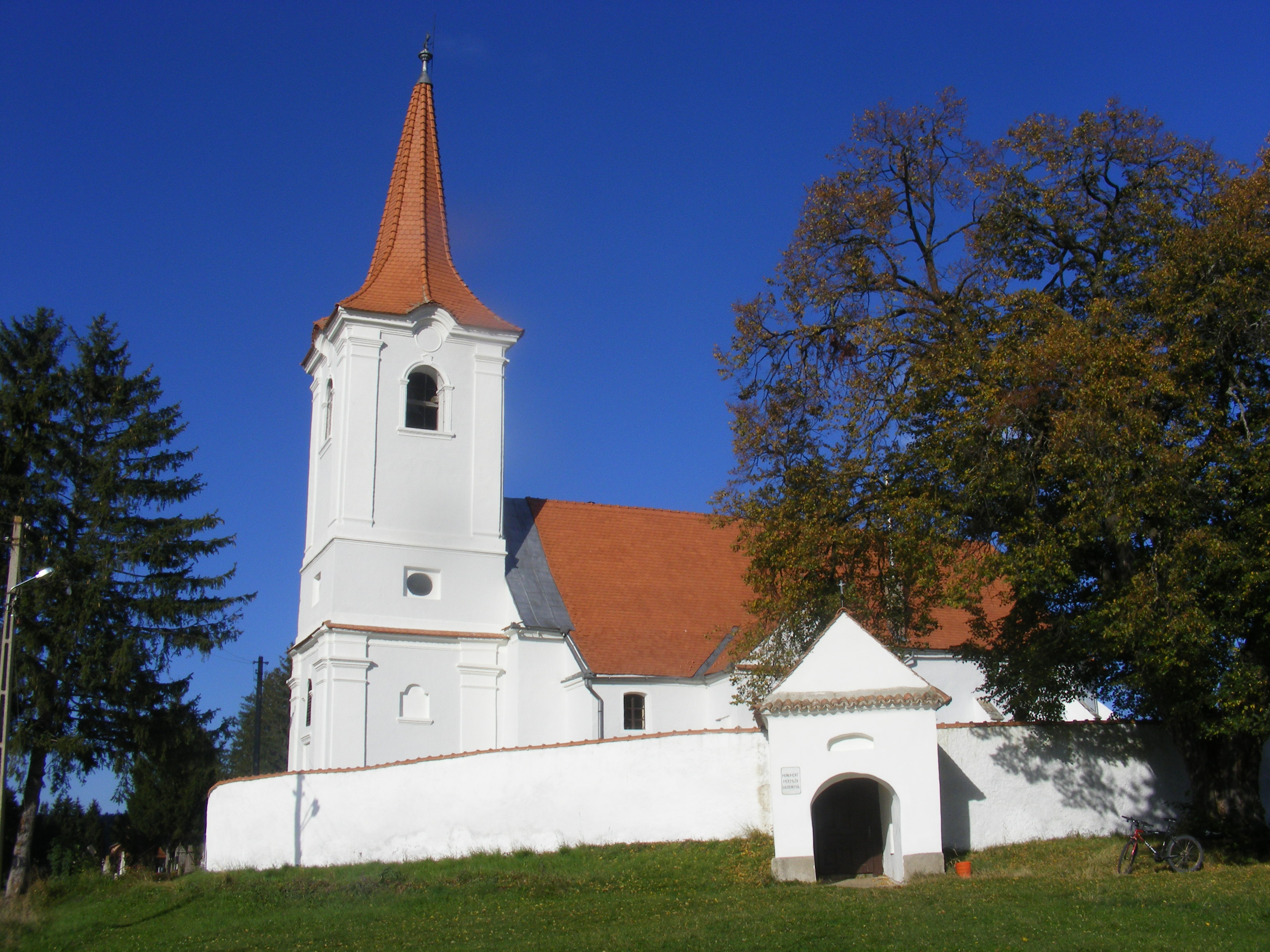 The romano-catholic church in Csíkszentlélek (Leliceni)